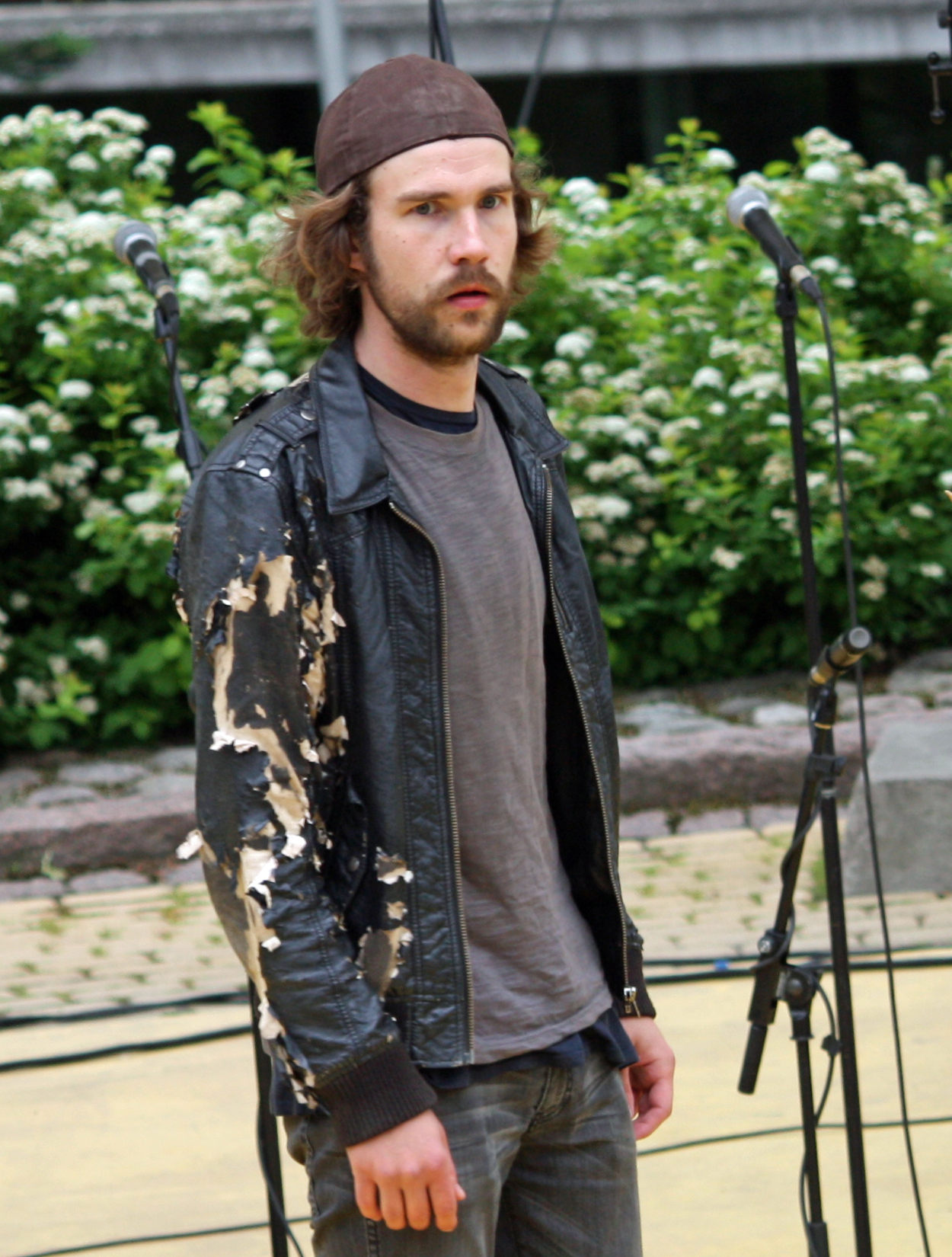 Finnish actor Tomi Alatalo from the theater Keski-Uudenmaan teatteri performing a fragment of Nummisuutarit on Aurinkomäki during the Kerava Day 2013